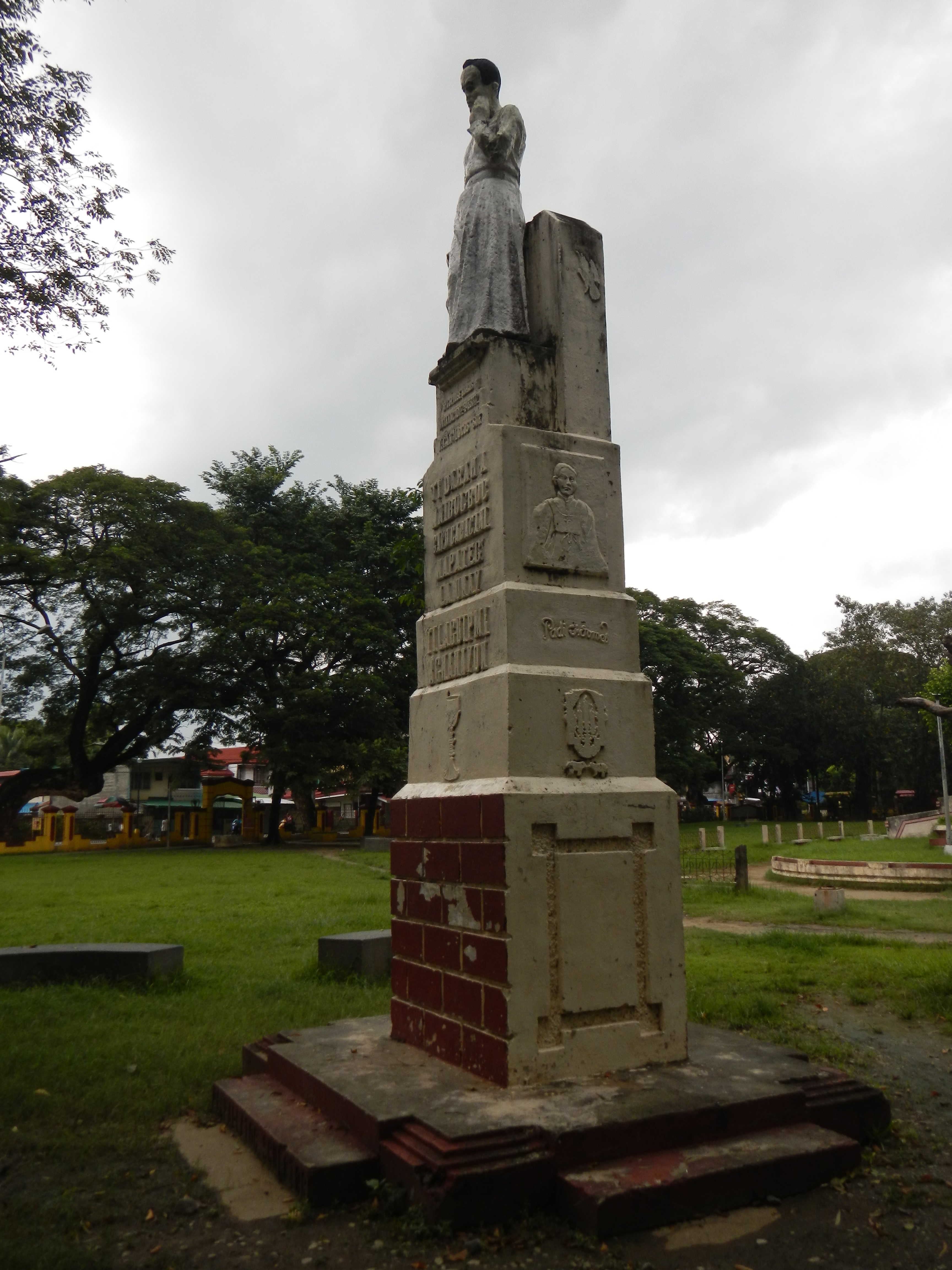 Upload Wizard photos of - (general description of group photos uploaded, the landmarks, church, town hall complex and interesting points) --- Asingan, Pangasinan [1] (a second class municipality in the province of Pangasinan, Philippines, 2010 census, population of 56,353 people, hometown of President Fidel V. Ramos[2], the 12th President of the Philippines, land area: 66.64 km² ZIP Code: 2439 Coordinates: 15°59'28 120°39'50"E[3] politically subdivided into 21 barangays); Narciso R. Ramos Elementary School, Veterans Federation of the Philippines Asingan WWII and Martyrs Monument, Marker and Memorial, statue of Unknown soldier in crossing, Centro, downtown, of -- near the -- Asingan Municipal Hall Complex [4] (Coordinates: 16°0'13"N 120°40'12"E Calepaan) - Monument of José Burgos[5] (José Apolonio Burgos y García was a Filipino mestizo secular priest, accused of mutiny by the Spanish colonial authorities in the Philippines placed in a mock trial and summarily executed in Manila along with two other clergymen); Freedom Gate, Auditorium, Grandstand, Park, Plaza.